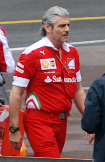 2016 Monaco F1 Grand Prix. Maurizio Arrivabene, Scuderia Ferrari's Team Principal.